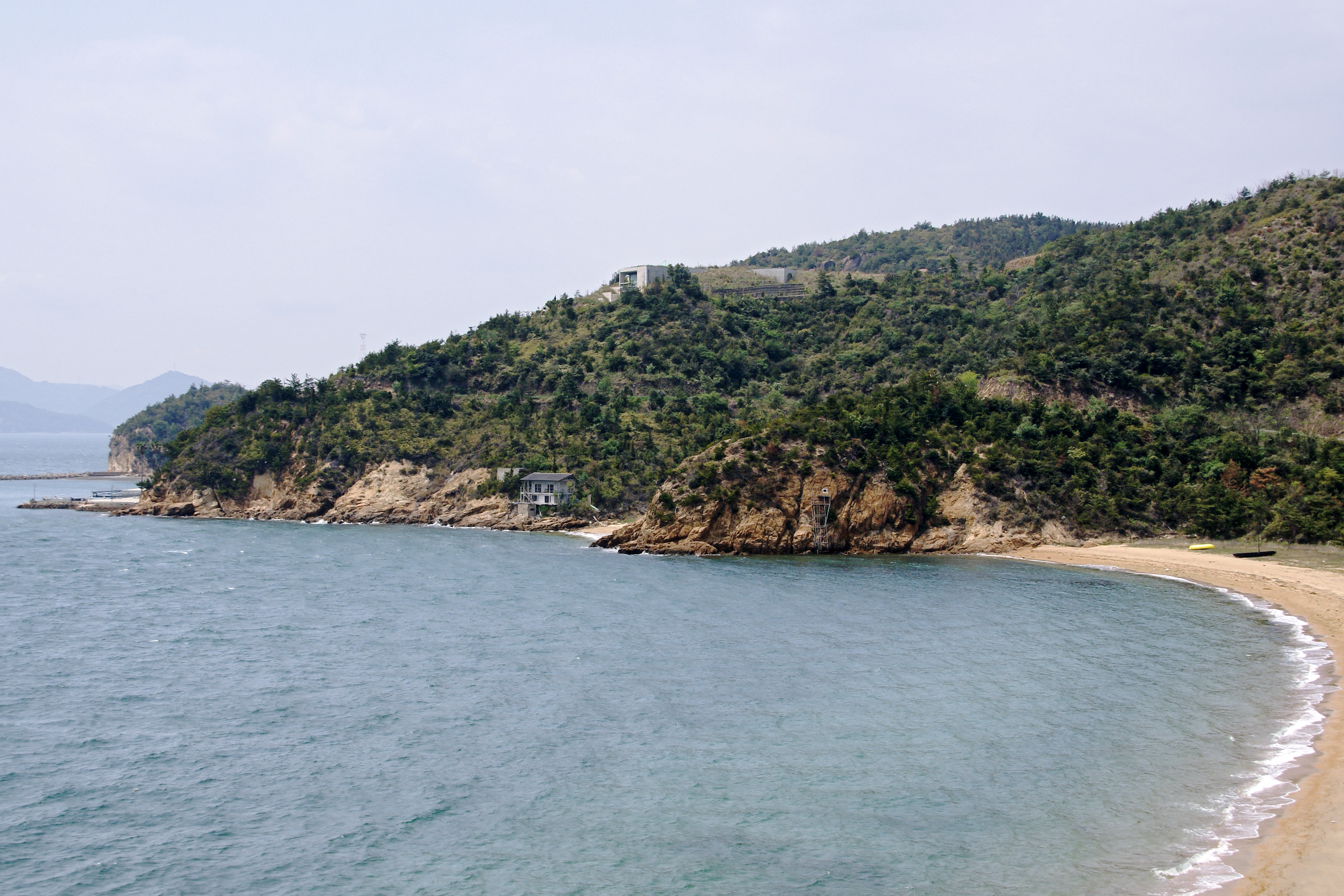 Chichu Art Museum in Naoshima, Kagawa prefecture, Japan